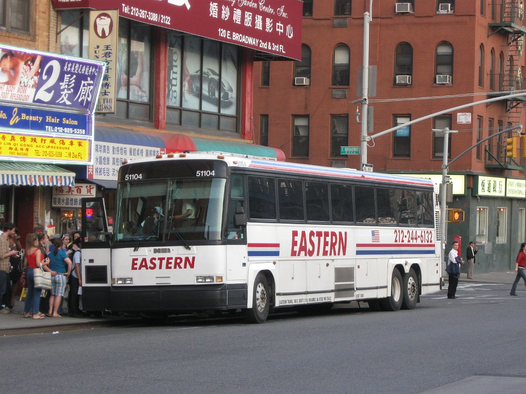 Eastern Shuttle #51104, re-labeled from its prior duty as a Megabus coach, loads customers in New York City's Chinatown for Philadelphia.